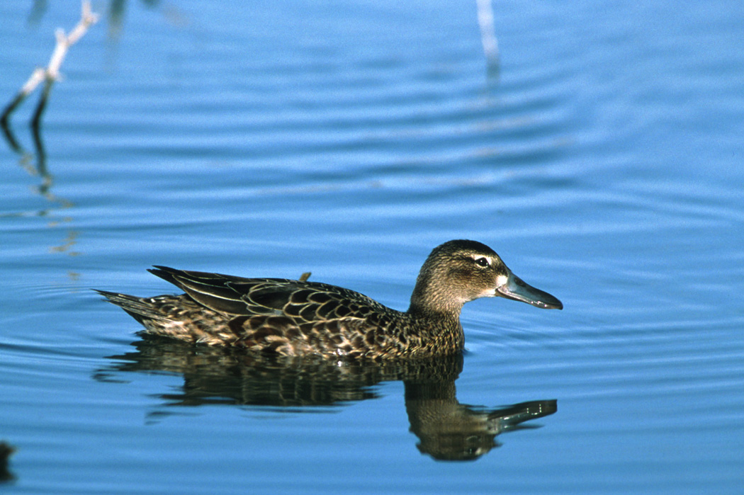 Female Cinnamon Teal (Anas cyanoptera) photographed in the Lower Klamath National Wildlife Refuge